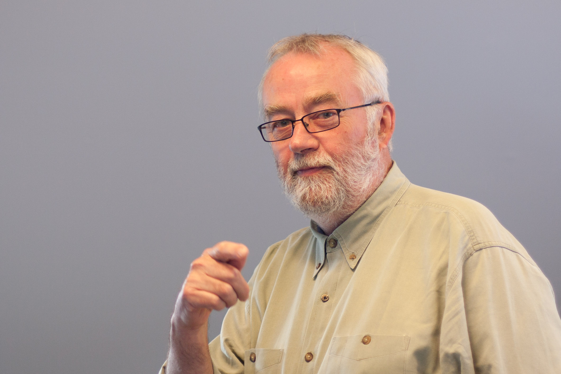 Bill Moggridge giving an open lecture at the Copenhagen Institute of Interaction Design, June 2010